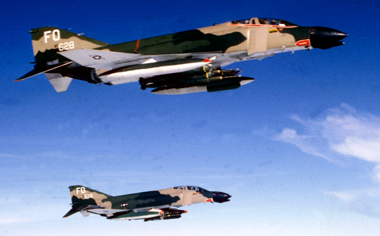 Two U.S. Air Force McDonnell F-4D-30-MC Phantom II fighters (s/n 66-7576, 66-7628) from the 435th Tactical Fighter Squadron, 8th Tactical Fighter Wing, over Vietnam, off the wing of a Boeing KC-135A Stratotanker. Both Phantoms are armed with three SUU-30/B cluster bombs (right wing), three LAU-3 rocket launchers (left wing) and six Mk 82 227 kg bombs (centerline). F-4D 66-7576 was written off in Vietnam on 30 July 1972.